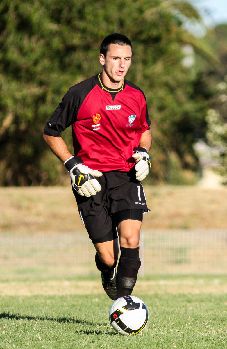 Vedran Janjetovic playing in the National Youth League for Sydney FC against Newcastle on February 7, 2009.